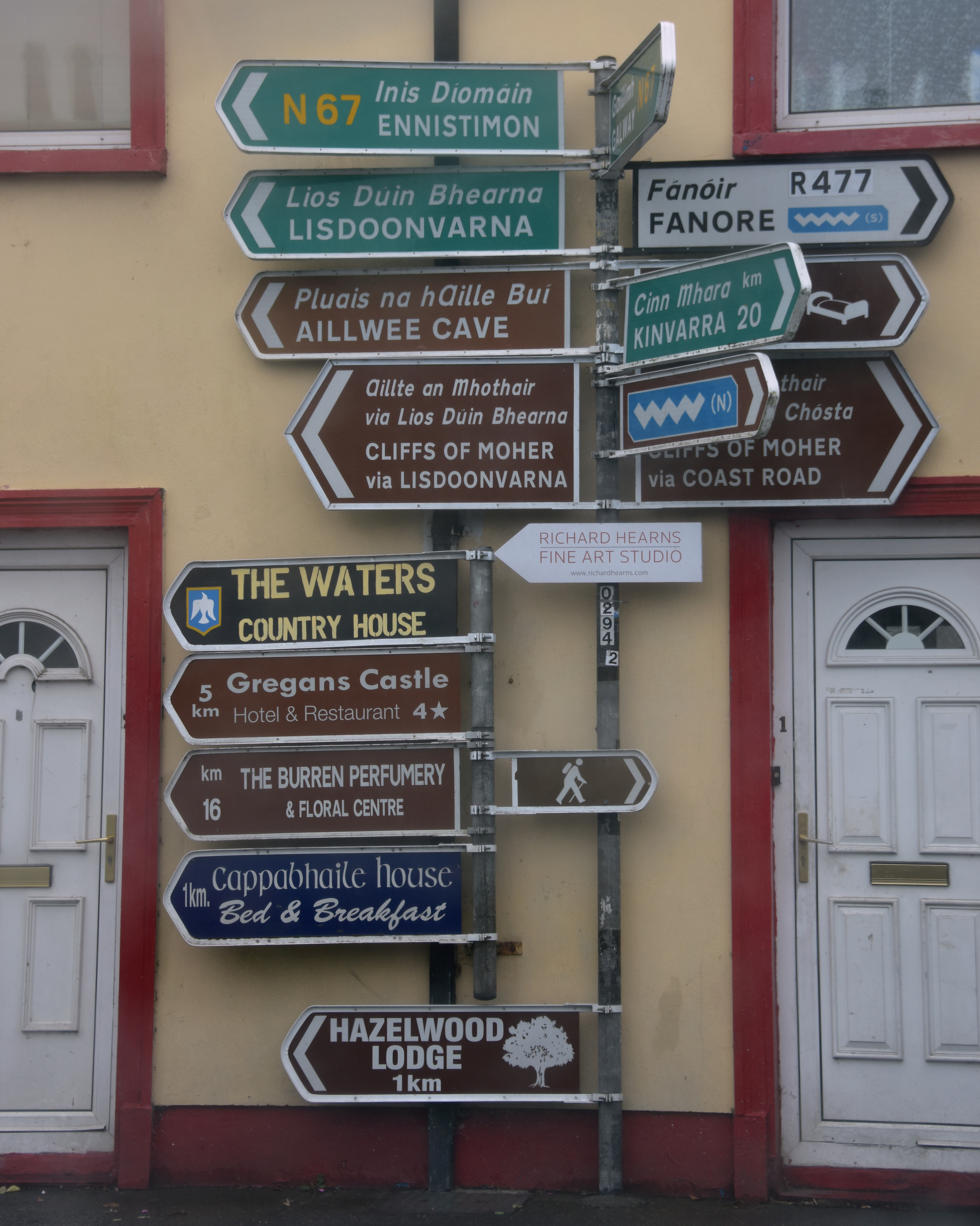 When the Irish roads authority tried to simplify this signpost, in the village of Ballyvaughan, there was a massive outcry from the locals, who had been using it for promotional purposes.